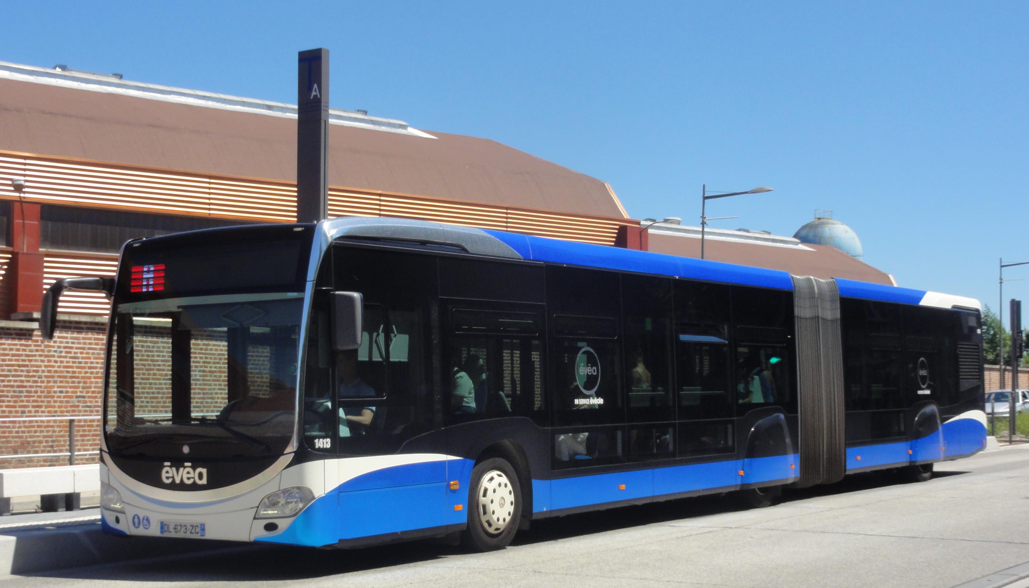 Depicted place: Douai